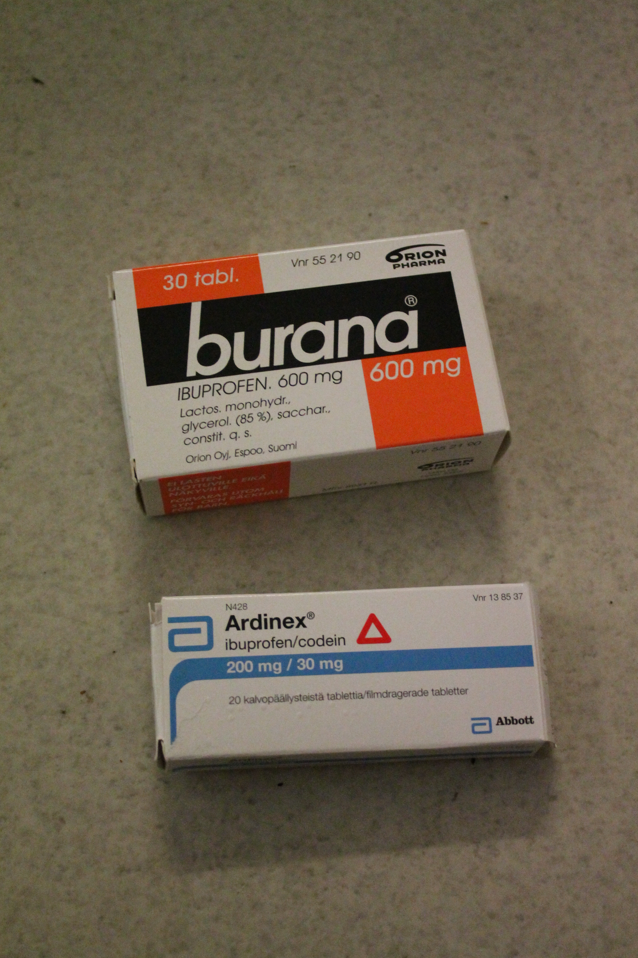 Ibuprofen based painkillers